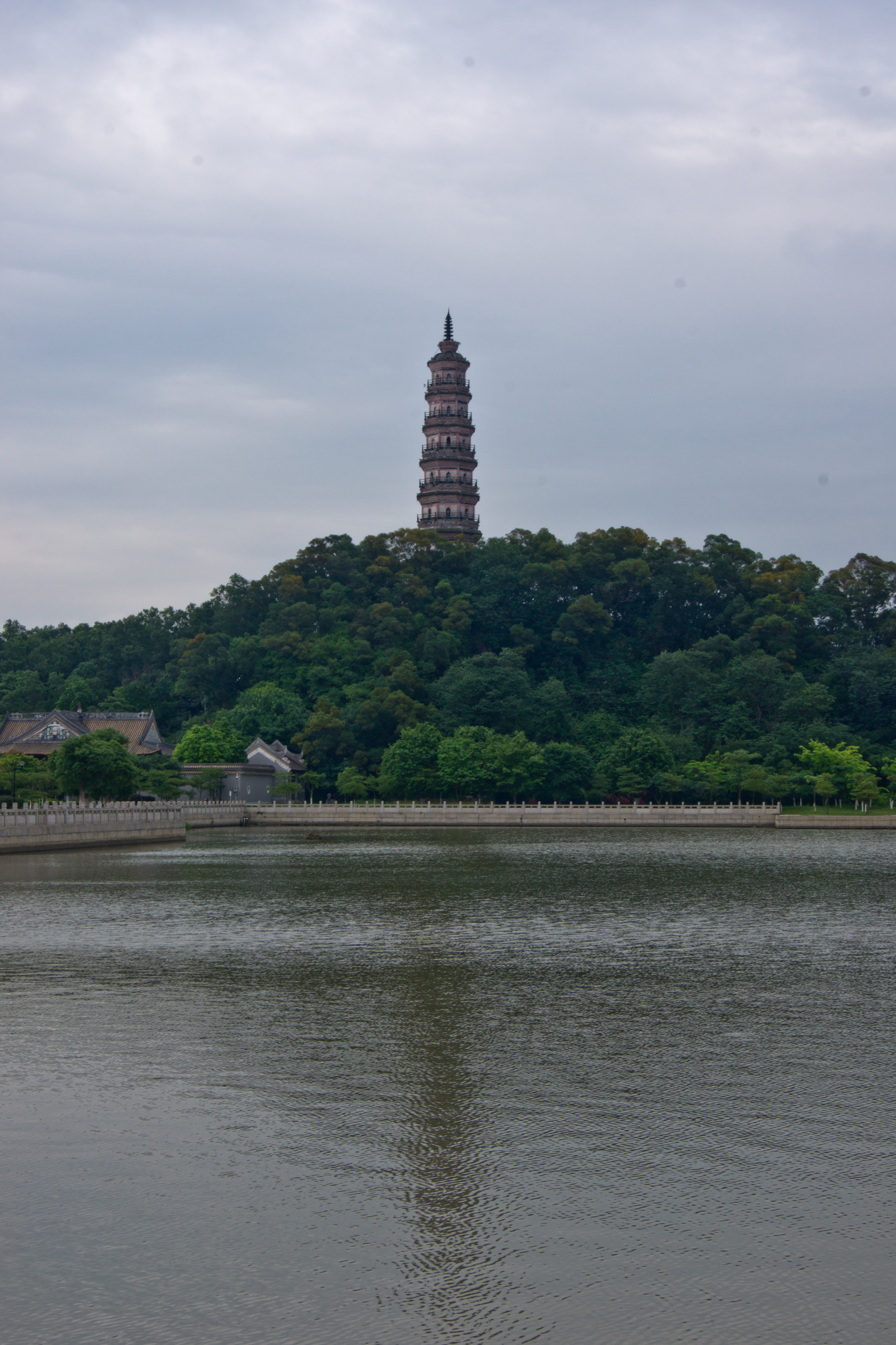 Qingyun Tower